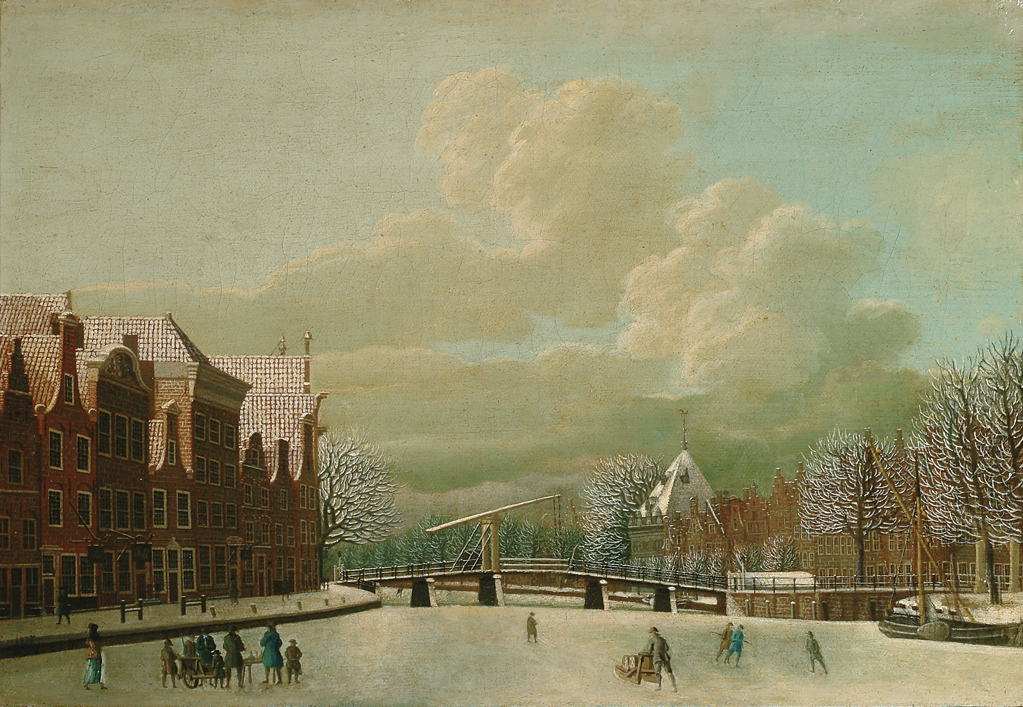 Het Korte Spaarne te Haarlem bij winter